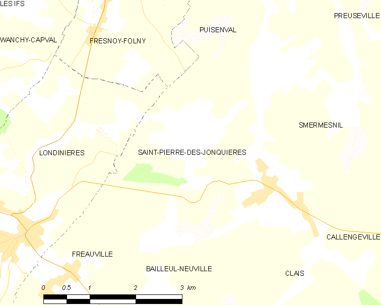 Map of French municipality Saint-Pierre-des-Jonquières